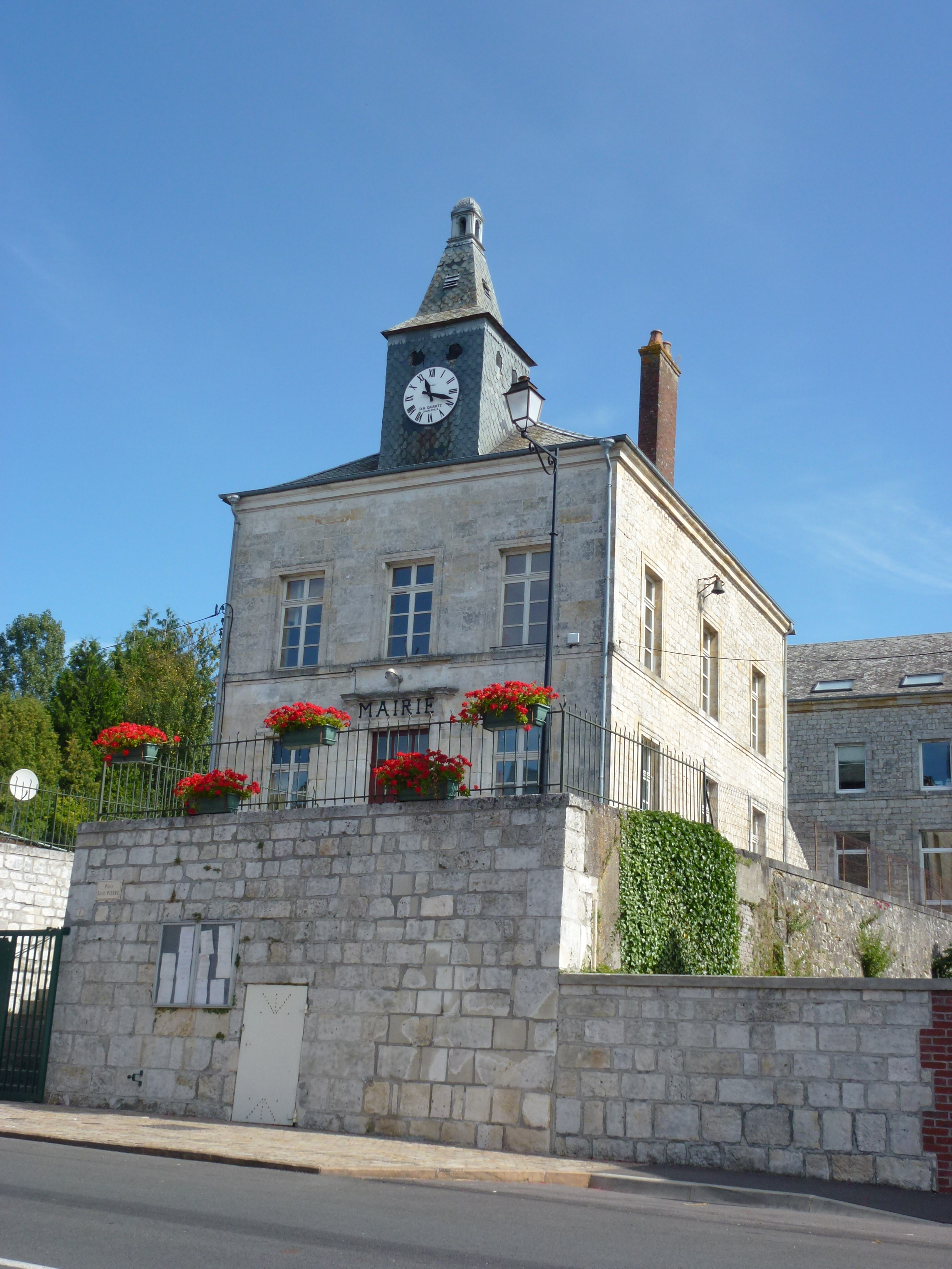 Rumigny (Ardennes) mairie